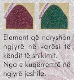 Elementet me ndryshim te ngjyres